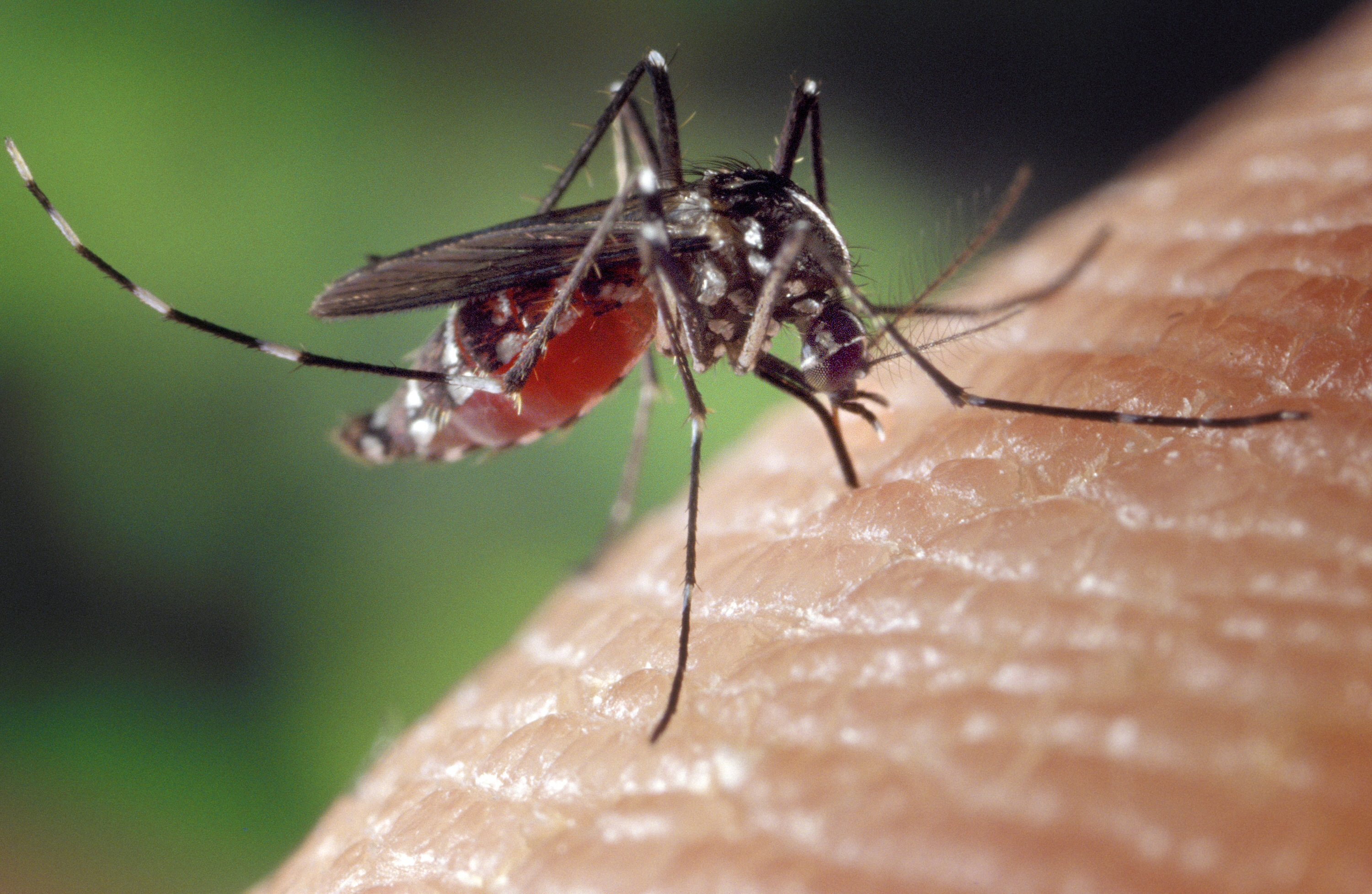 A blood-engorged female Aedes albopictus mosquito feeding on a human host. Content Providers(s): CDC Copyright Restrictions: None - This image is in the public domain and thus free of any copyright restrictions. As a matter of courtesy we request that the content provider be credited and notified in any public or private usage of this image.